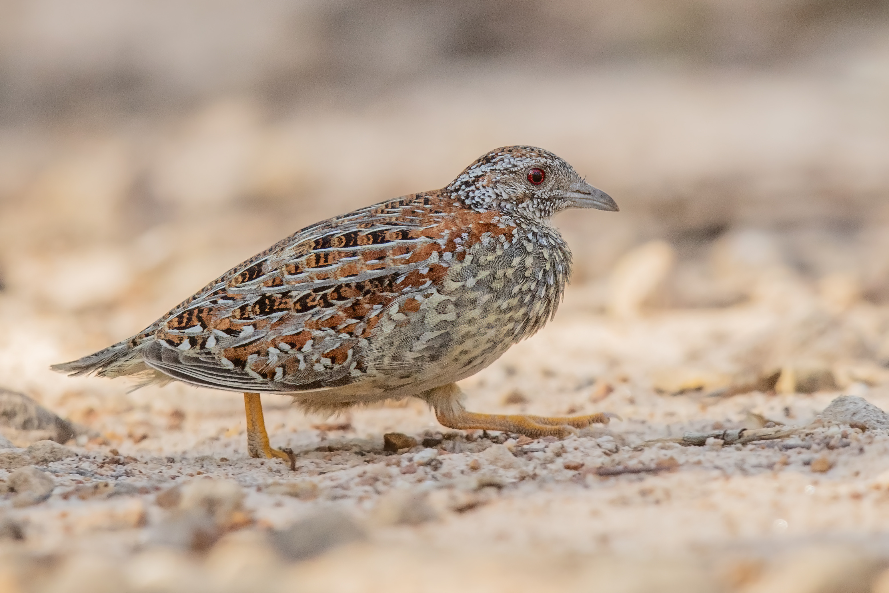 Painted Buttonquail (Turnix varius) , Castlereigh nature reserve, New South Wales, Australia